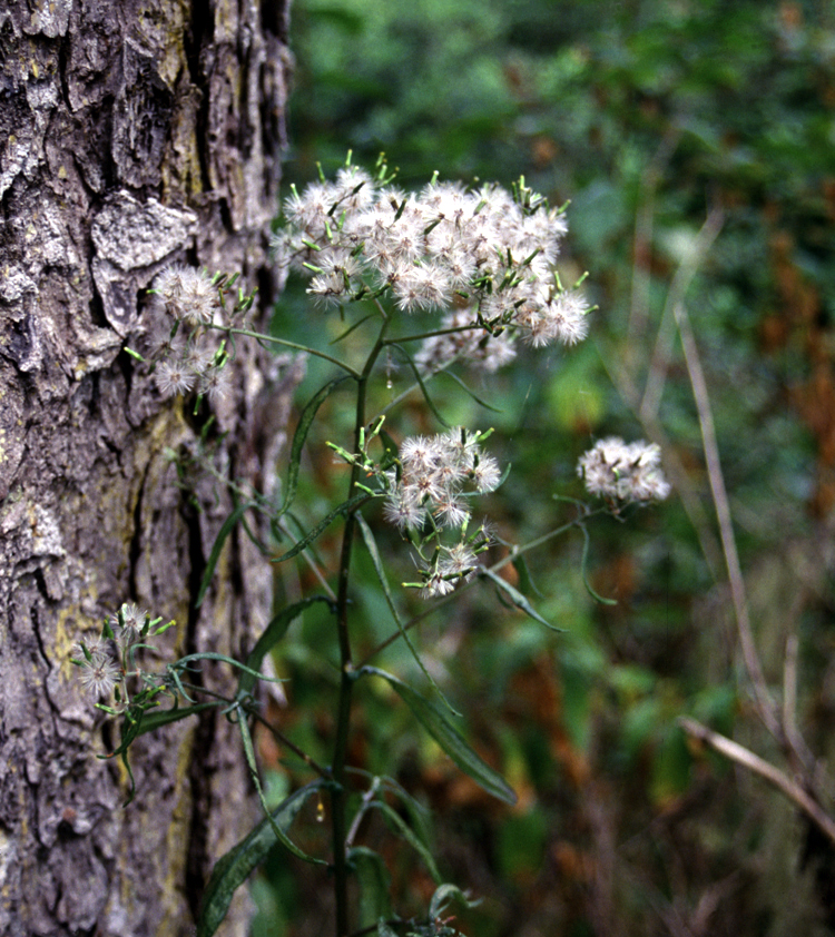 Erechtites minima at Humboldt Bay National Wildlife Refuge Complex, California, USA